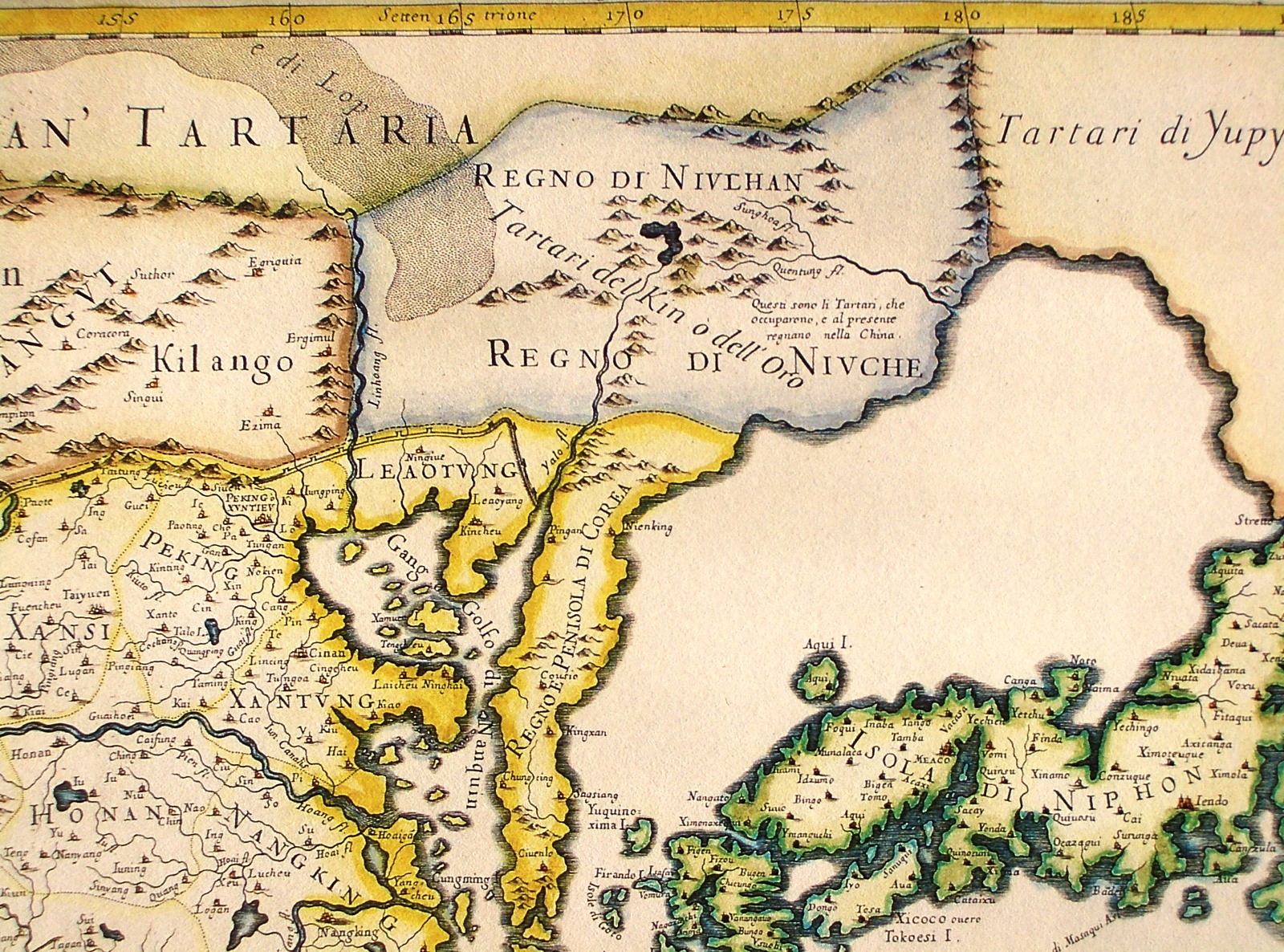 Northeastern fragment of a map of China (in Italian), showing the "Tartari del Kin o dell'Oro" (i.e., the Jin Tartars, or the Golden Tartars) populating the "Regno del Niulhan" (?) a.k.a. "Regno del Niuche" (i.e. the Kingdom of the Nüzhen, a.k.a Jurchen") who are further described as "The Tartars who have occupied, and at present are ruling, China". Further northeast, the "Tartari de Yupy" (i.e., "Fishskin Tartars" - the generic name of the Tungusic people of the Amur) are shown.